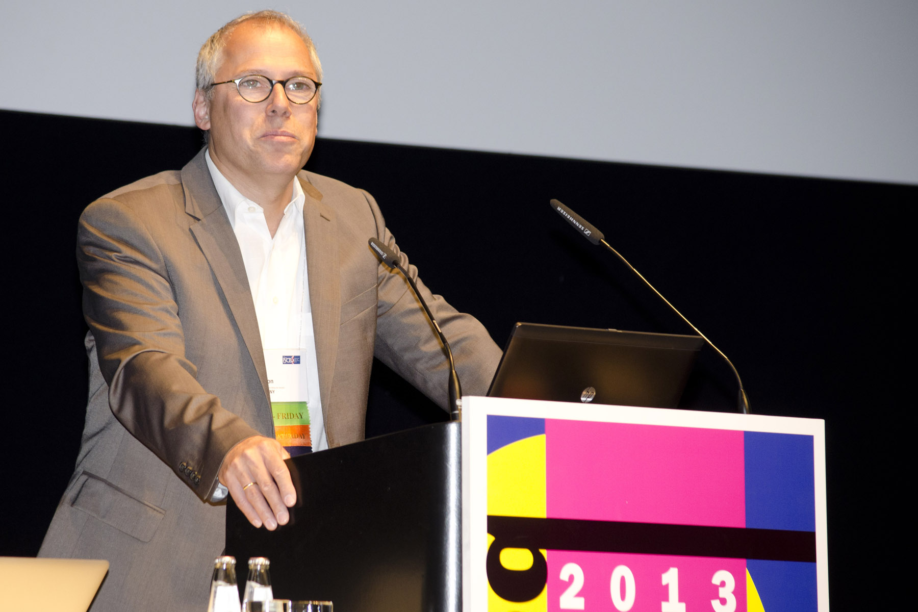 Martin Vingron pictured at ISMB/ECCB in Berlin, 2013